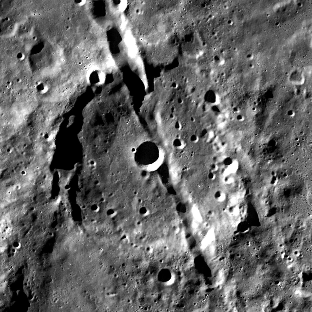 Crater Sikorsky on the Moon. Mosaic of photos by Lunar Reconnaissance Orbiter, made with Wide Angle Camera. Size of the image is 150×150 km, north is approximately up.